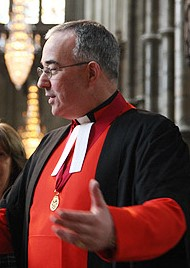 John Hall, Dean of Westminster at Westminster Abbey.